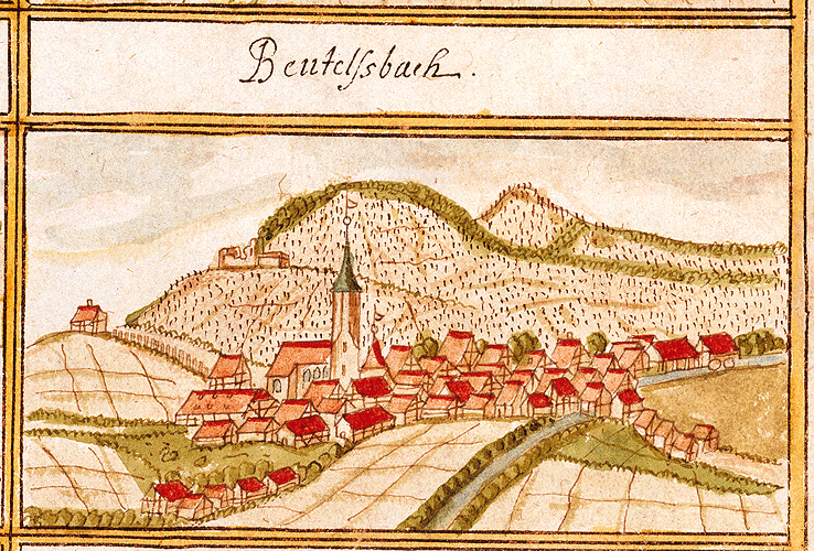 View of Beutelsbach, Weinstadt, from the forest register books created by Andreas Kieser